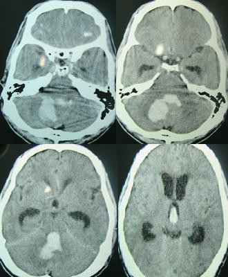 CT scan of intracerebral hemorrhage. Caption reads, "Pre operative CT scan. Representative pre-operative CT scan of a patient showing a posterior fossa haemorrhage with associated hydrocephalus and blood in the ventricles."